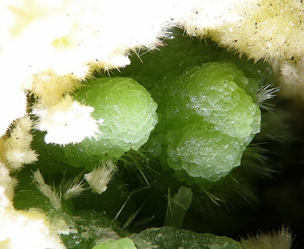 Arsendescloizite, Mimetite Locality: Ojuela Mine, Mapimí, Municipio de Mapimí, Durango, Mexico (Locality at ) Green Arsenodescloizite with yellowish mimetite. Picture width 3 mm. Collection and photograph Christian Rewitzer